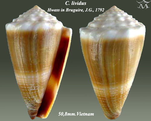 Conus lividus 1